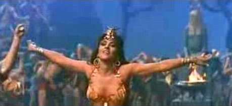 Screenshot of Gina Lollobrigida as Sheba from the Solomon and Sheba trailer